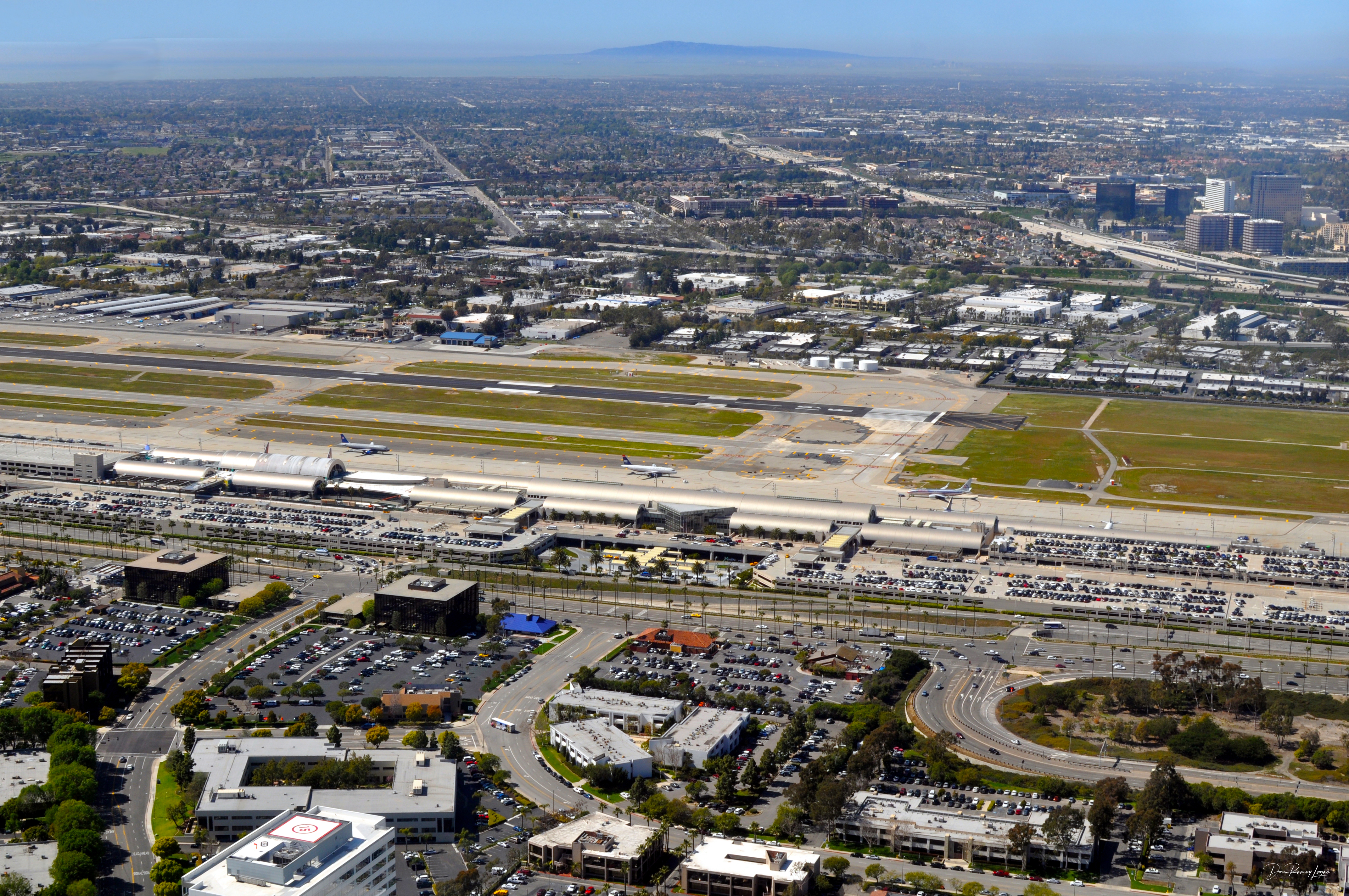 John Wayne Airport and Terminal from 900 feet AGL, If used outside of any Wiki project please credit to read: "Pilot & Photographer D. Ramey Logan".